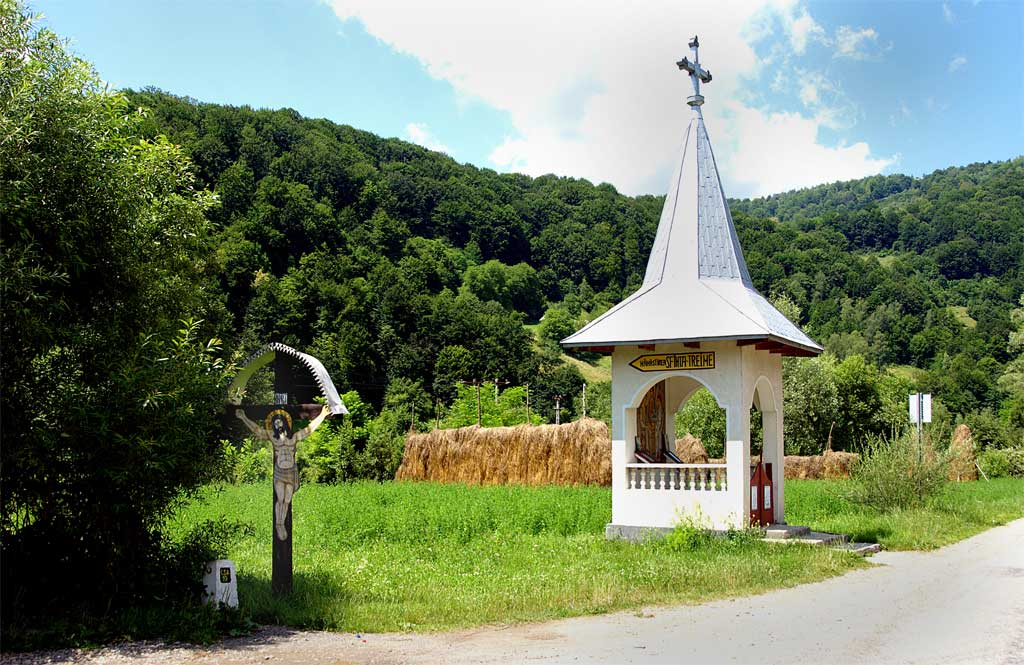 Bichigiu - Chapel at the Nationalstreet 17C